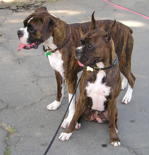 Brindle Boxers with natural and cropped ears. Java (natural ears) and Cammi (cropped ears).